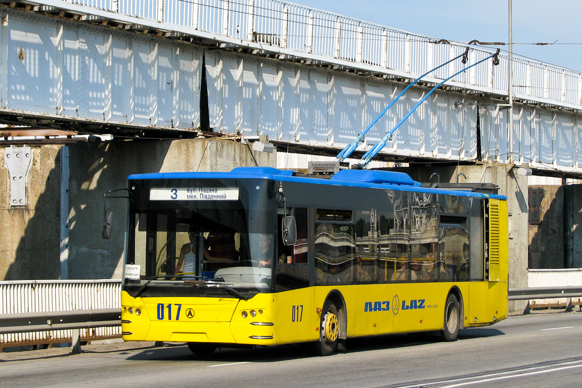 Trolleybus ElectroLAZ-12 # 017, Dnieper Hydroelectric Station, Zaporizhia, Ukraine